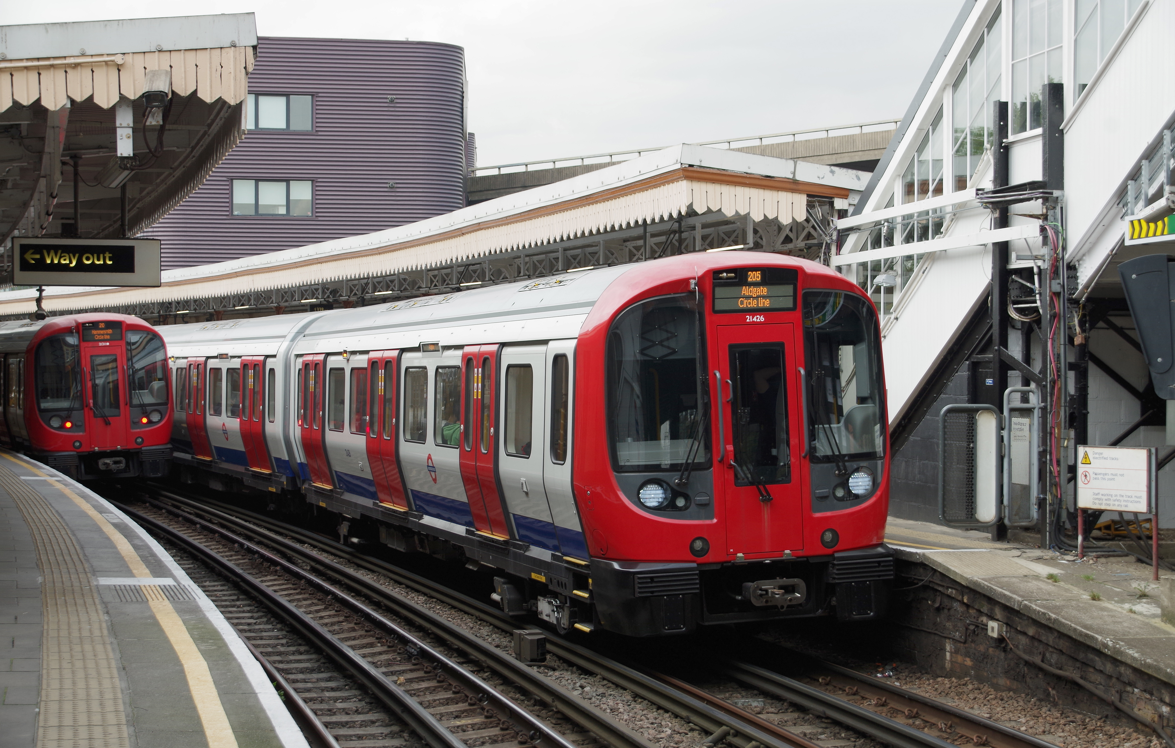 A London Underground S Stock EMUs pass at Westbourne Park. On the left, the W210 Circle Line service to Hammersmith, on the right the E205 Circle Line service to Aldgate (due to engineering works no trains were running along the south side of the circle).